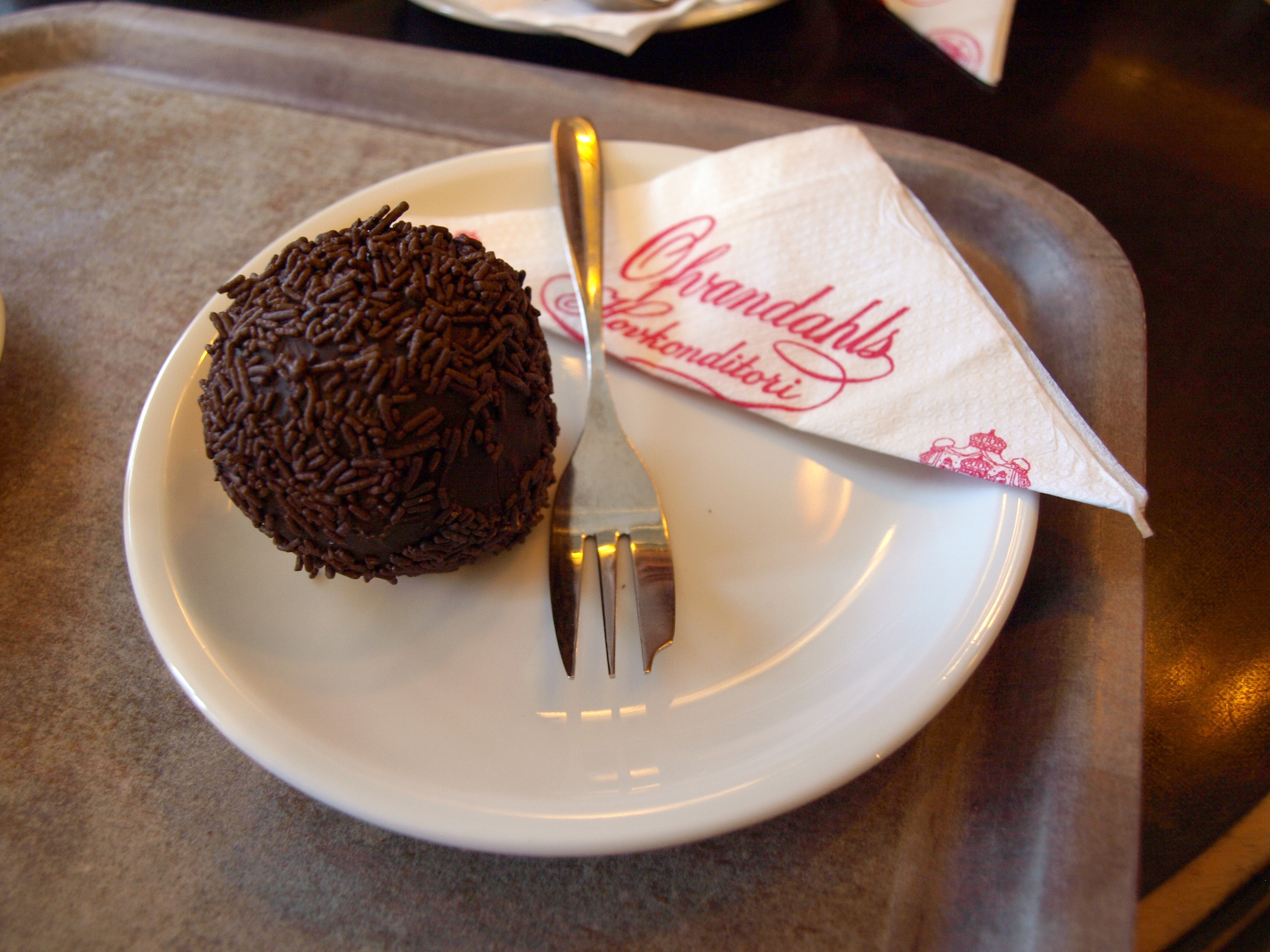 A so called "Arrack ball", as served on Ofvandahls café in Uppsala, Sweden.